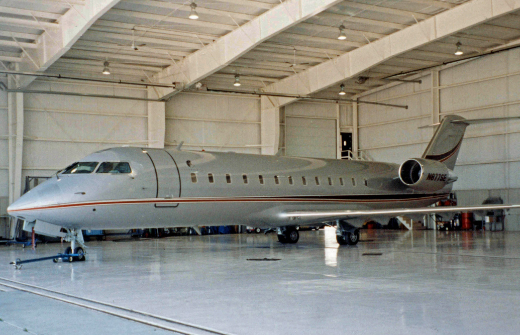 Canadair RJ-100SE executive jet at Kenosha, Wisconsin